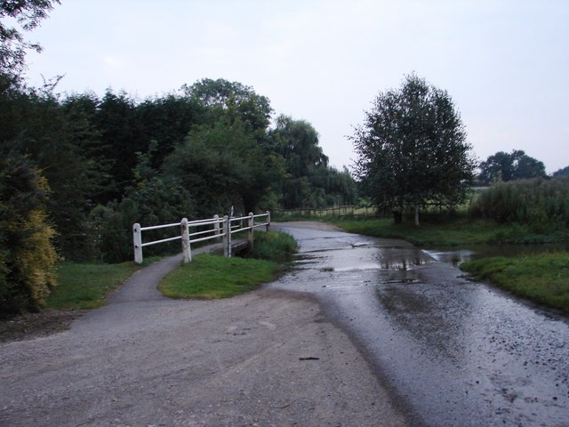 Ford at Kirkby Green. Just about to enter the village from the south. Despite being one of the hottest days in 2008, the ford has a reasonable flow of water. Follow this link to see it used at the end of an old film clip.